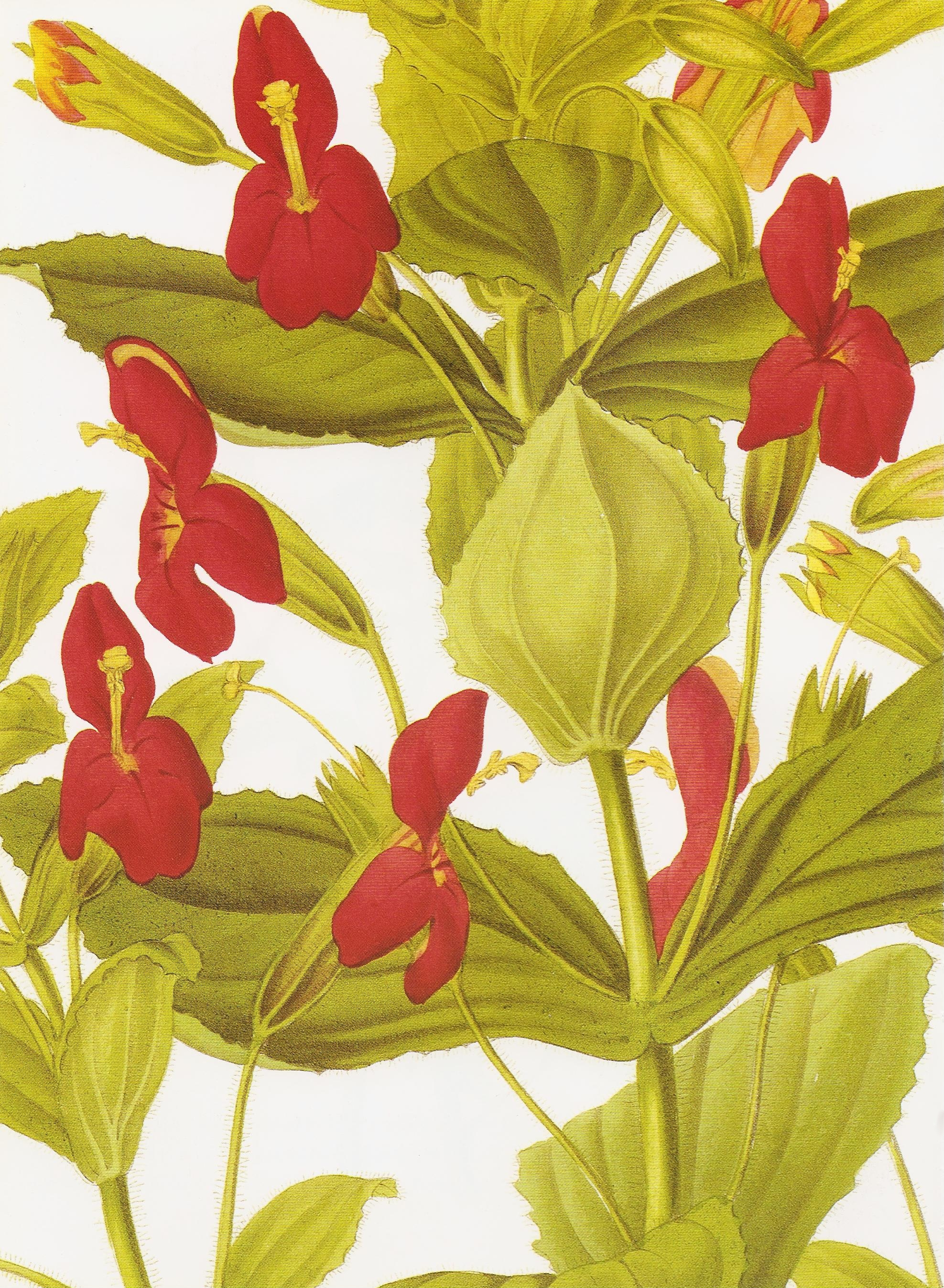 Mimulus cardinalis, a hand-cooured engraving after a drawing by Miss S. A. Drake (fl. 1820s-1840s), from the Transactions of the Horticultural Society (1835). The plant was discovered and named by the Horticultural Society's collector David Douglas, and John Lindley published the first description.